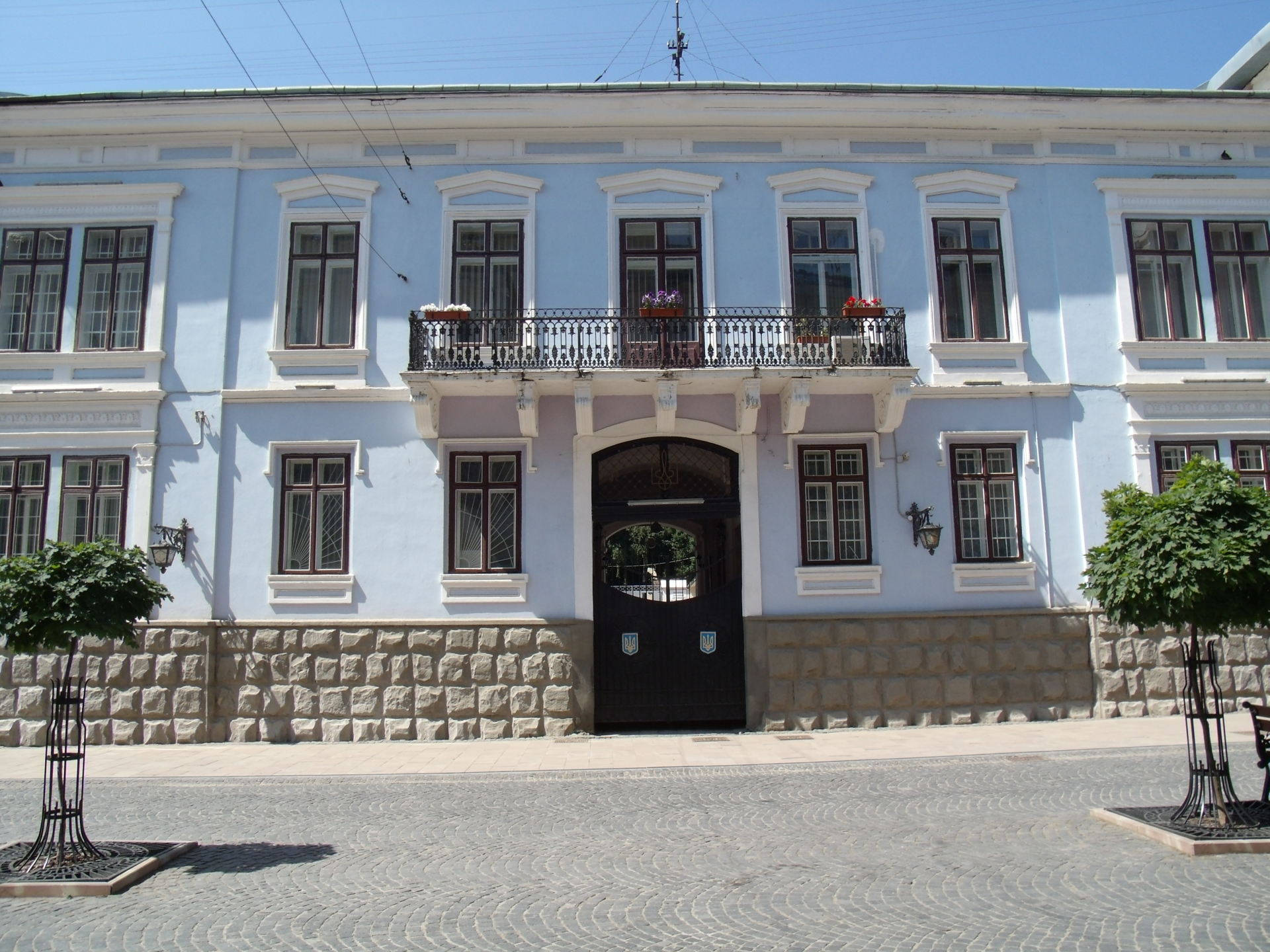 Chernivtsi, Kobylianska house 34